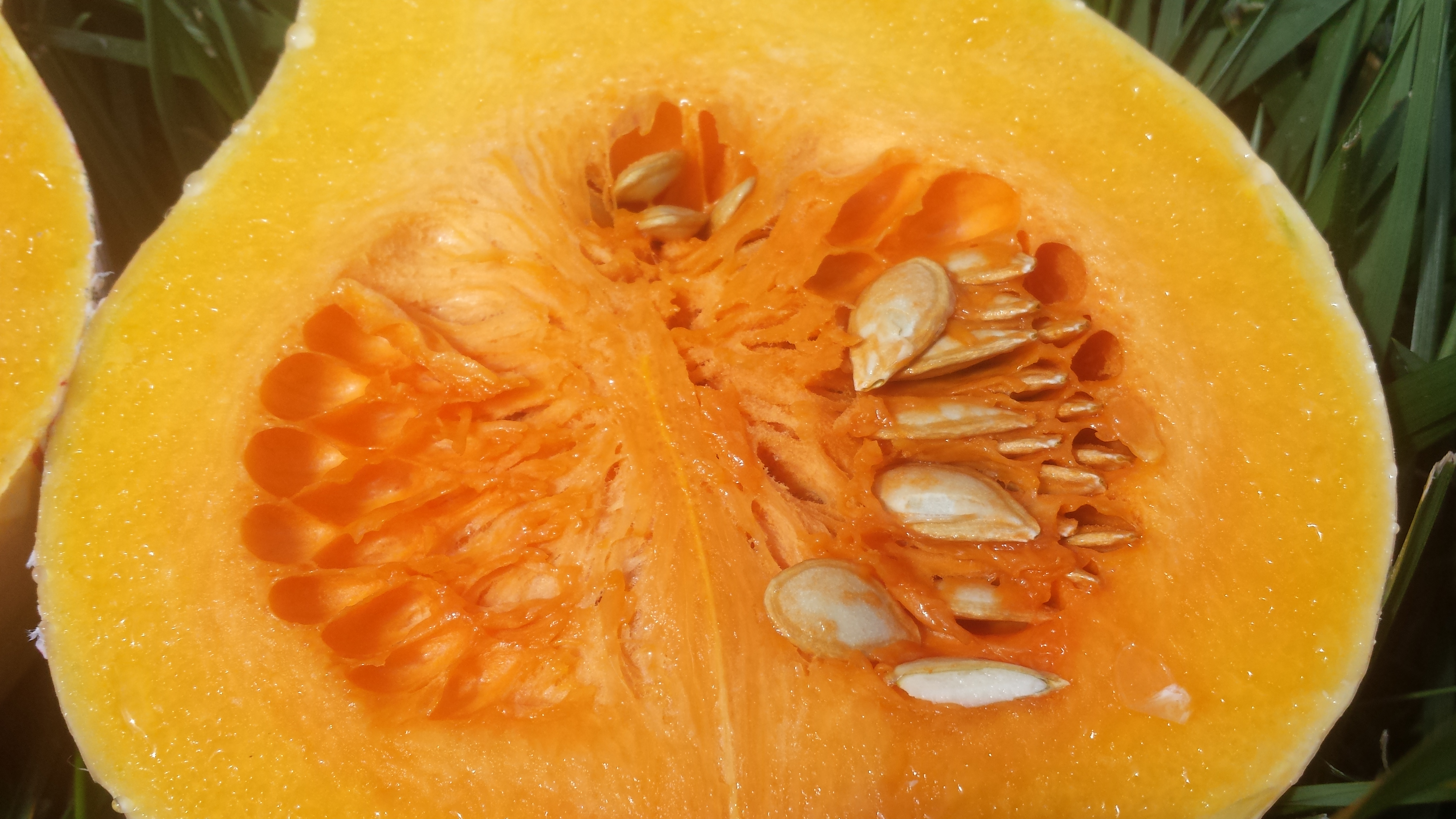 Cross section of Cucurbita moschata 'Butternut' fruit